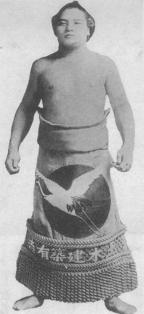 a Japanese Sumo wrestler, 玉椿憲太郎（Kentaro Tamatsubaki）